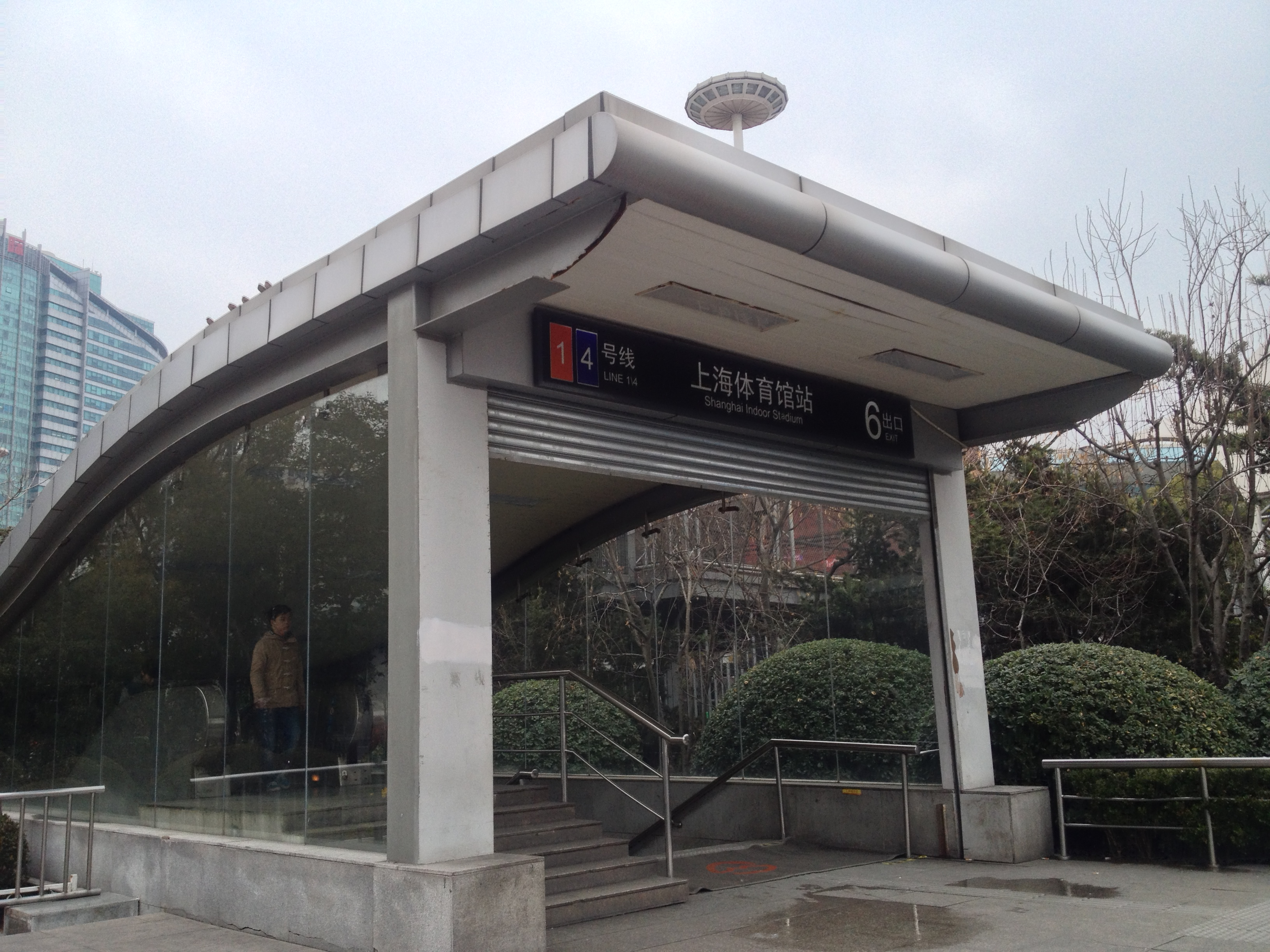 Shanghai Railway Transportation Shanghai Indoor Stadium Station No.6 Exit